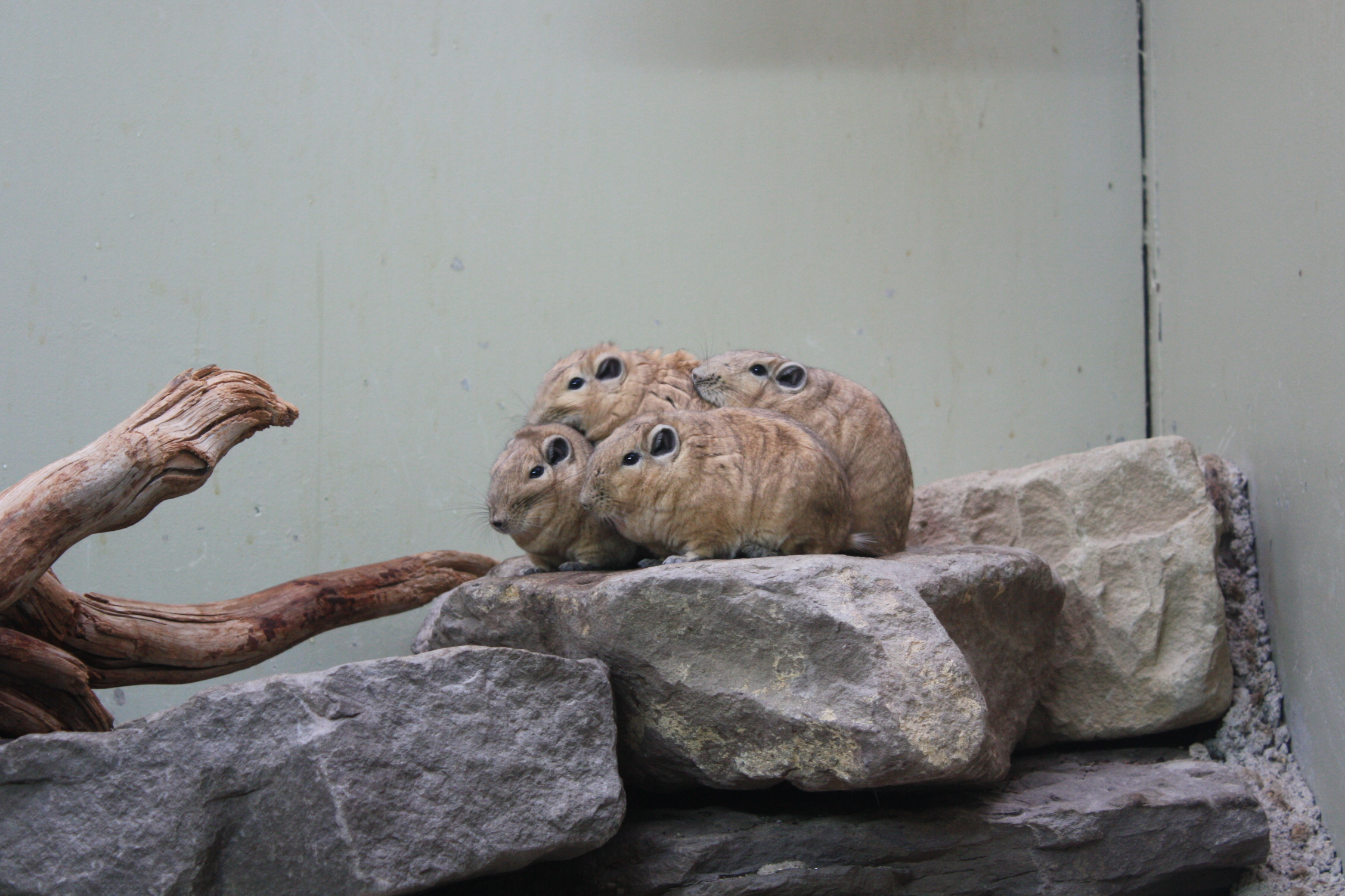 Foto taken in the zoo (Wilhelma Stuttgart)